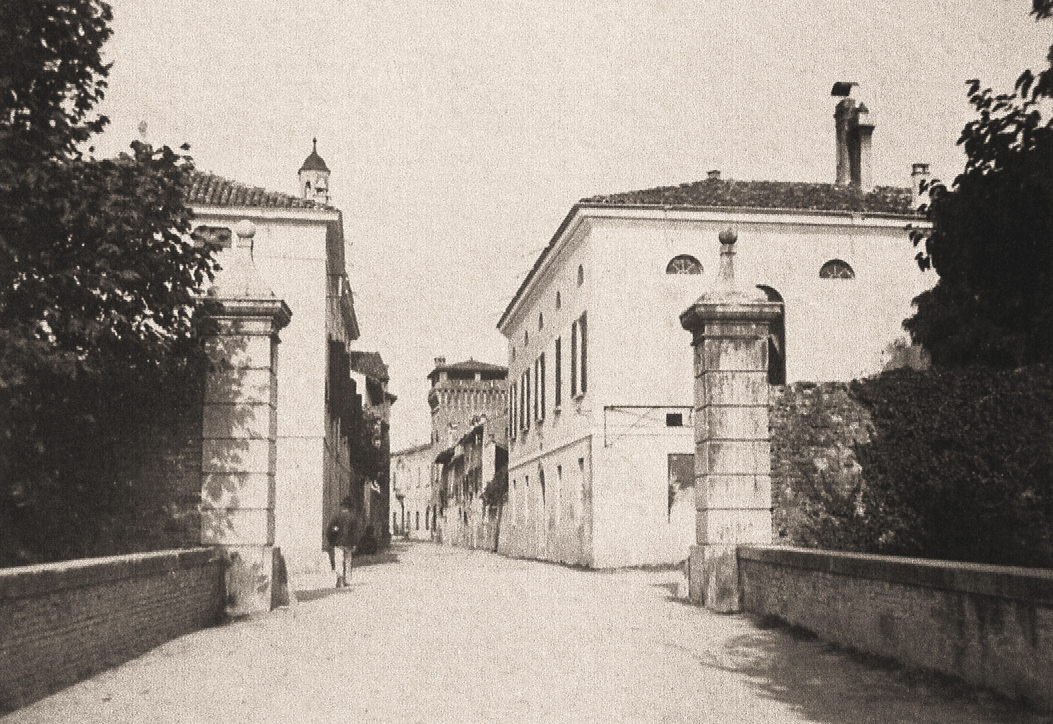 Castel Goffredo, Porta Picaloca.